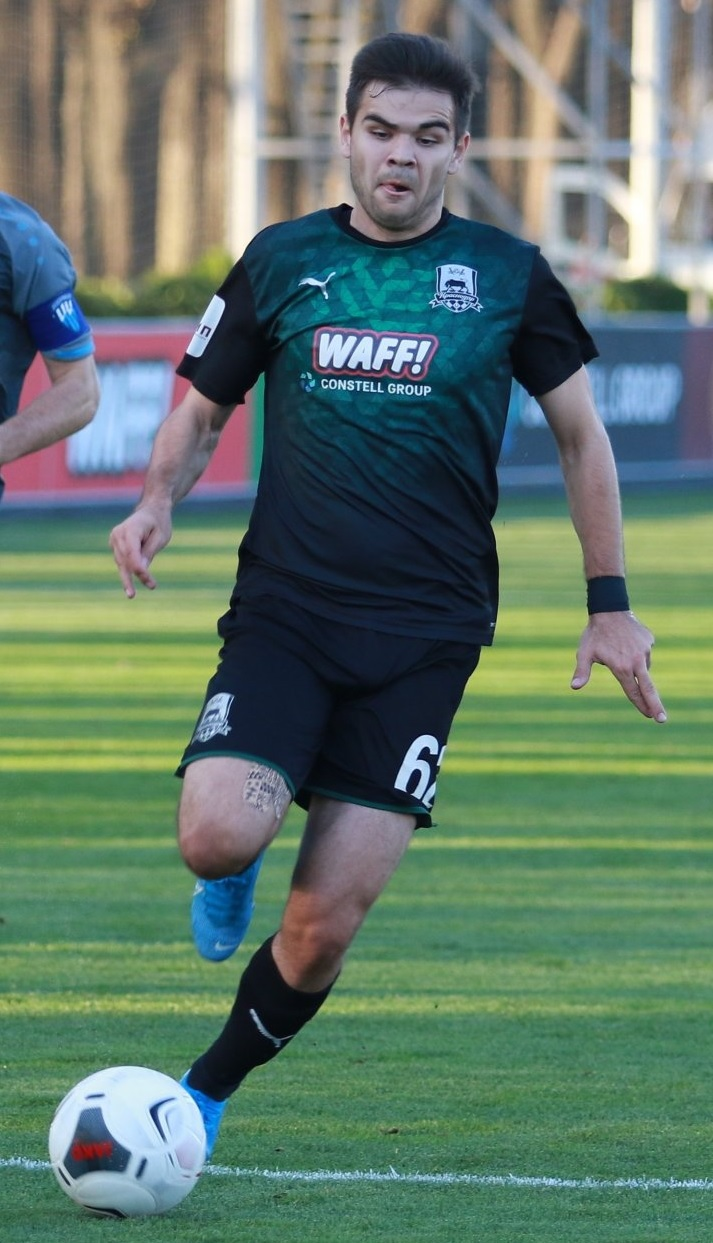 Aleks Matsukatov with FC Krasnodar-2 in a game against FC Nizhny Novgorod.